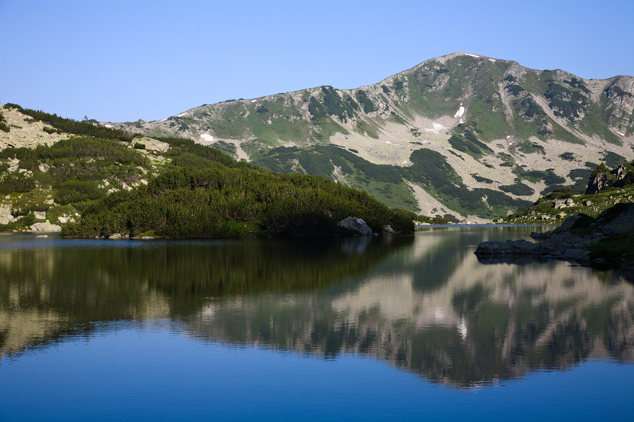 Prevalski chukar peak in Pirin, Bulgaria